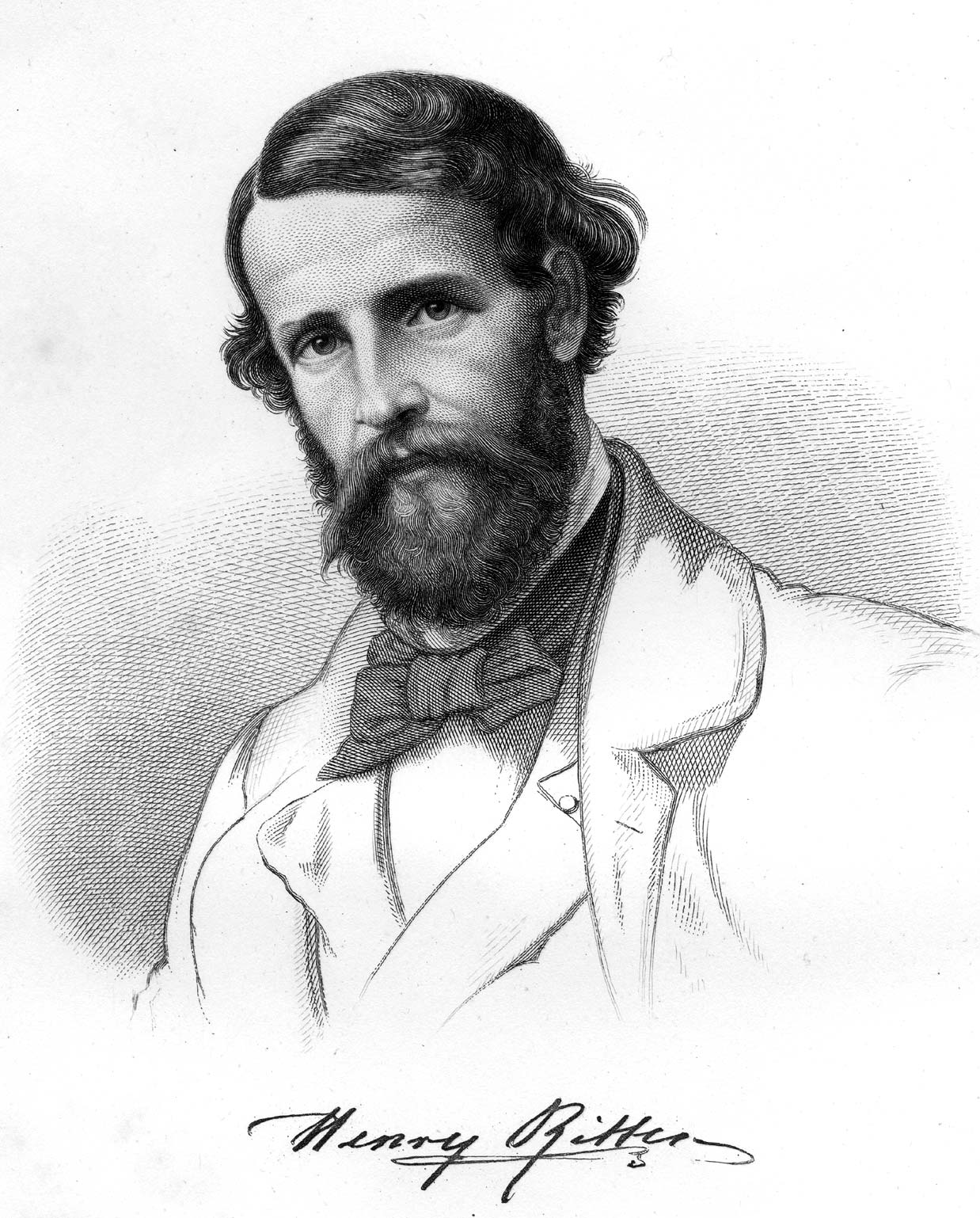 Canadian-German painter Henry Ritter, from Washington Irving: Auswahl aus Seinen Schriften with illustrations by Henry Ritter and Wilhelm Camphausen. Brockhaus, Leipzig, 1856